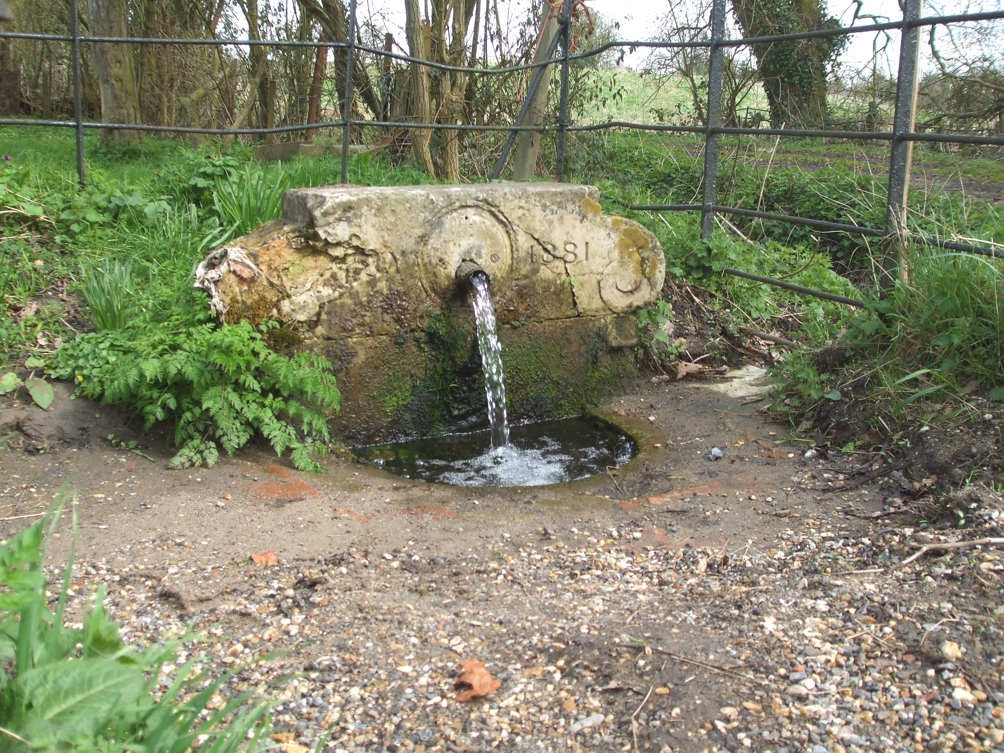 Spring by the side of the road (Cole Hill) Great Leighs, Essex. TL739157.